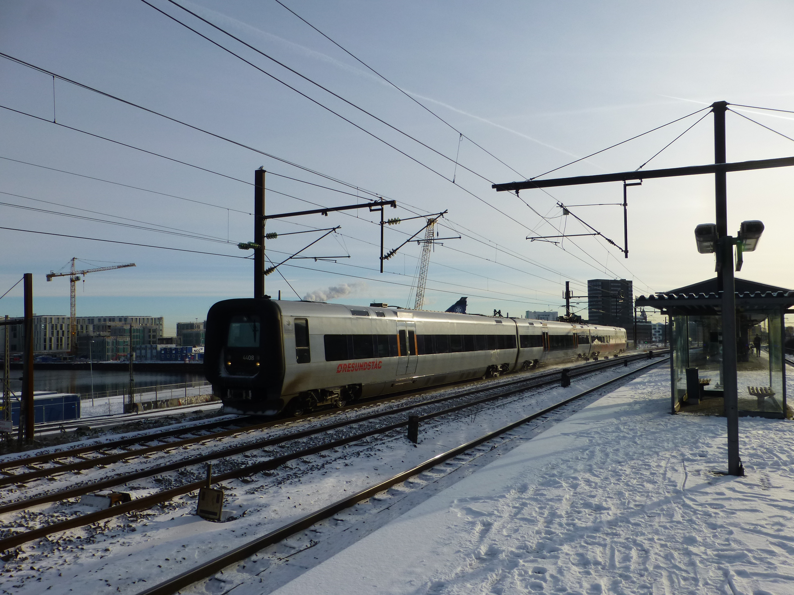 Electric multiple unit known as Øresundstog at Nordhavn in Copenhagen.